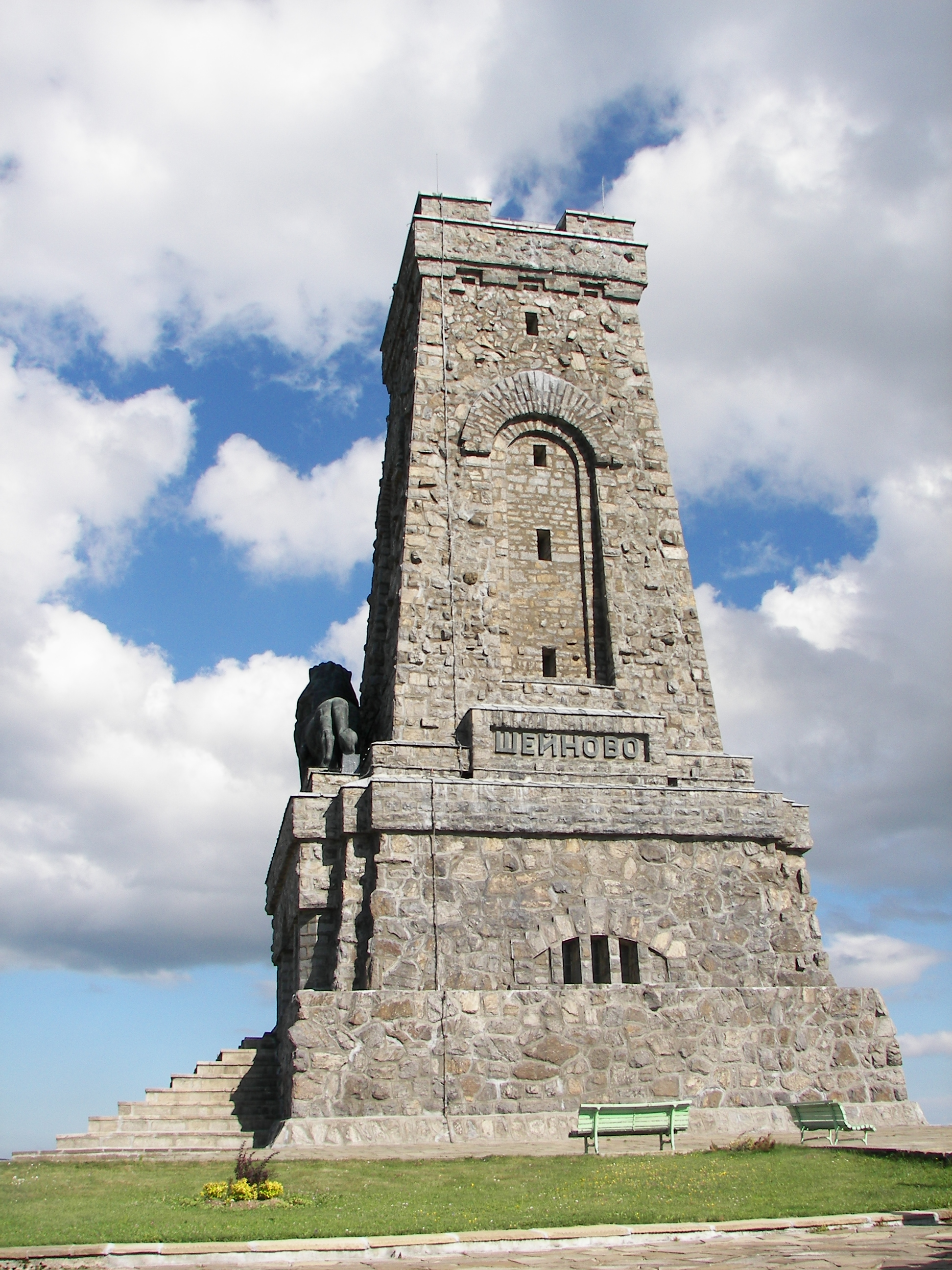 Shipka